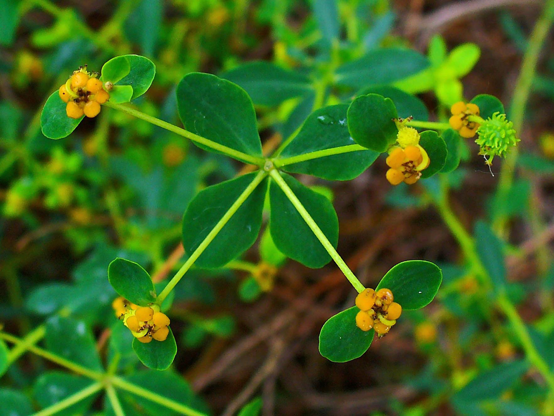 Euphorbia spinosa, Euphorbiaceae, Spiny Spurge, inflorescences; Botanical Garden KIT, Karlsruhe, Germany.